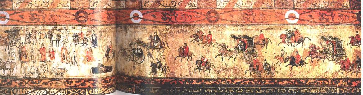 The Dahuting Tomb (Chinese: 打虎亭汉墓, Pinyin: Dahuting Han mu; Wade-Giles: Tahut'ing Han mu) of the late Eastern Han Dynasty (25-220 AD), located in Zhengzhou, Henan province, China, was excavated in 1960-1961 and contains vault-arched burial chambers decorated with murals showing scenes of daily life. For further information, see the Baidu article (in Chinese): 打虎亭汉墓. Click here for more pictures and a step-by-step walkthrough of the tomb, from the outside, down a stairwell, and through the vaulted burial chambers.